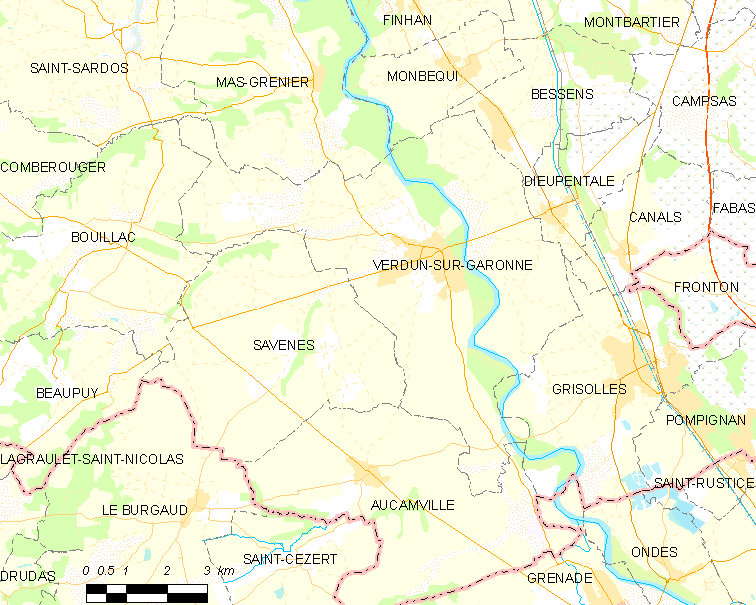 Map of French municipality Verdun-sur-Garonne